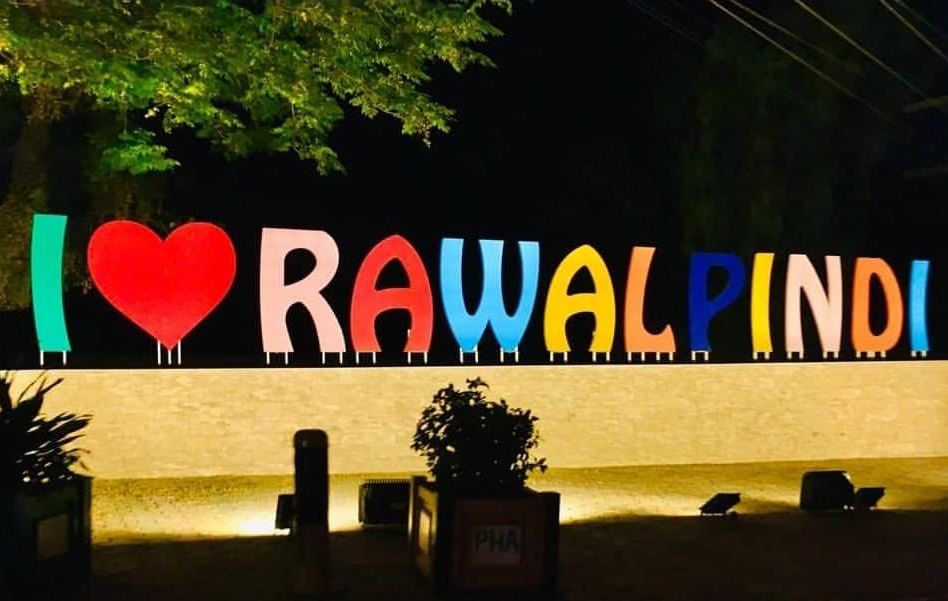 I love Rawalpindi signboard inscribed by PHA outside Punjab house during a campaign "Green Rawalpindi"